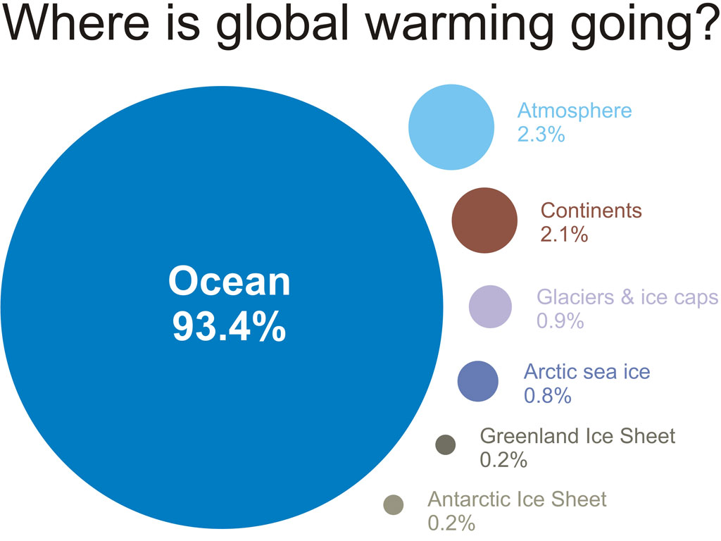 Shows how much energy is added to the various parts of the climate system due to global warming, according to the 2007 IPCC AR(4) WG1 Sec 5.2.2.3 (